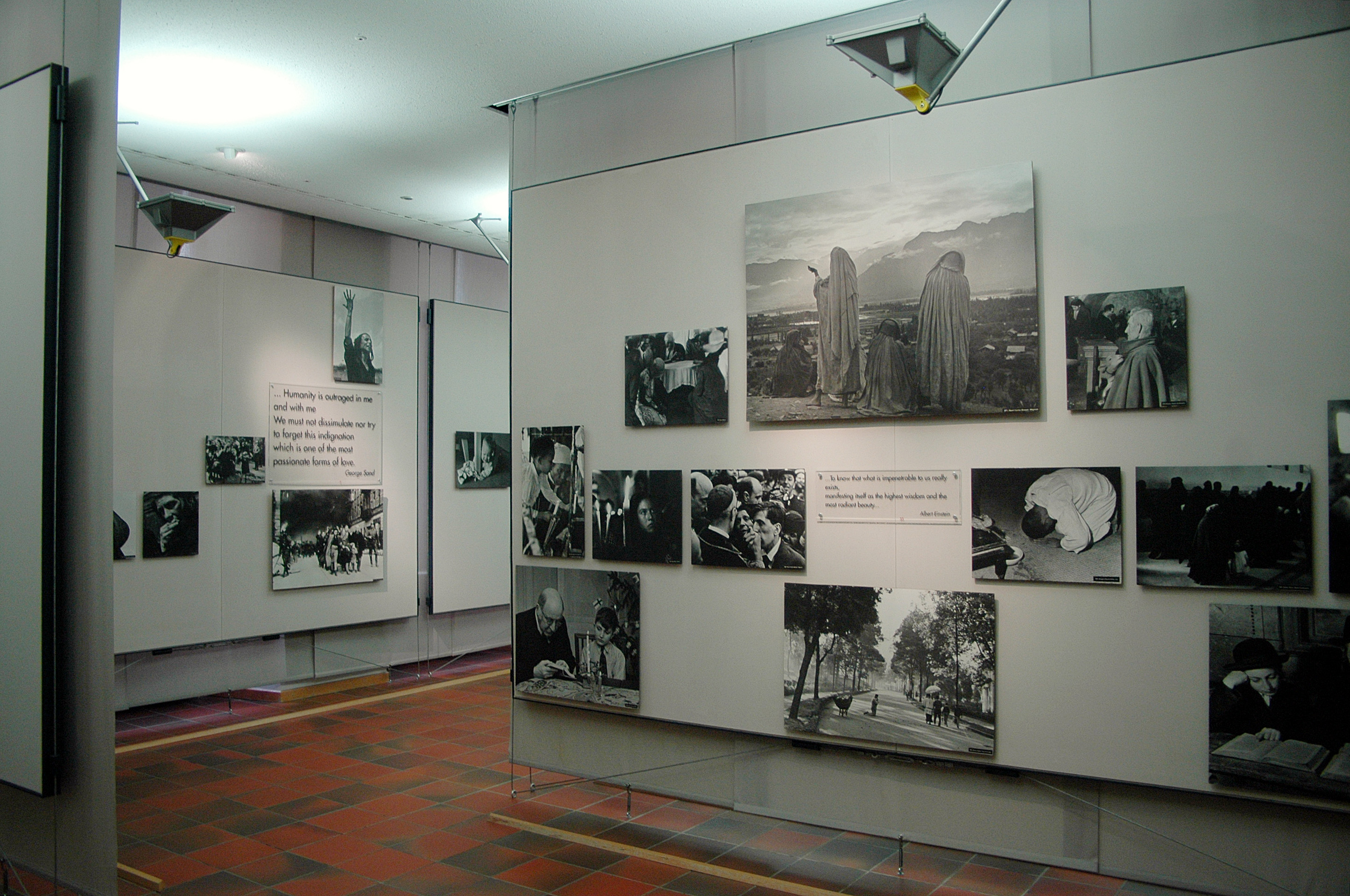 The photography exhibition 'The family of man' at Clervaux castle in Luxembourg.